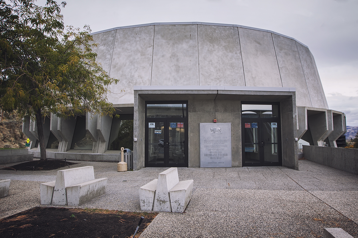 Grand Coulee Dam Visitor Center